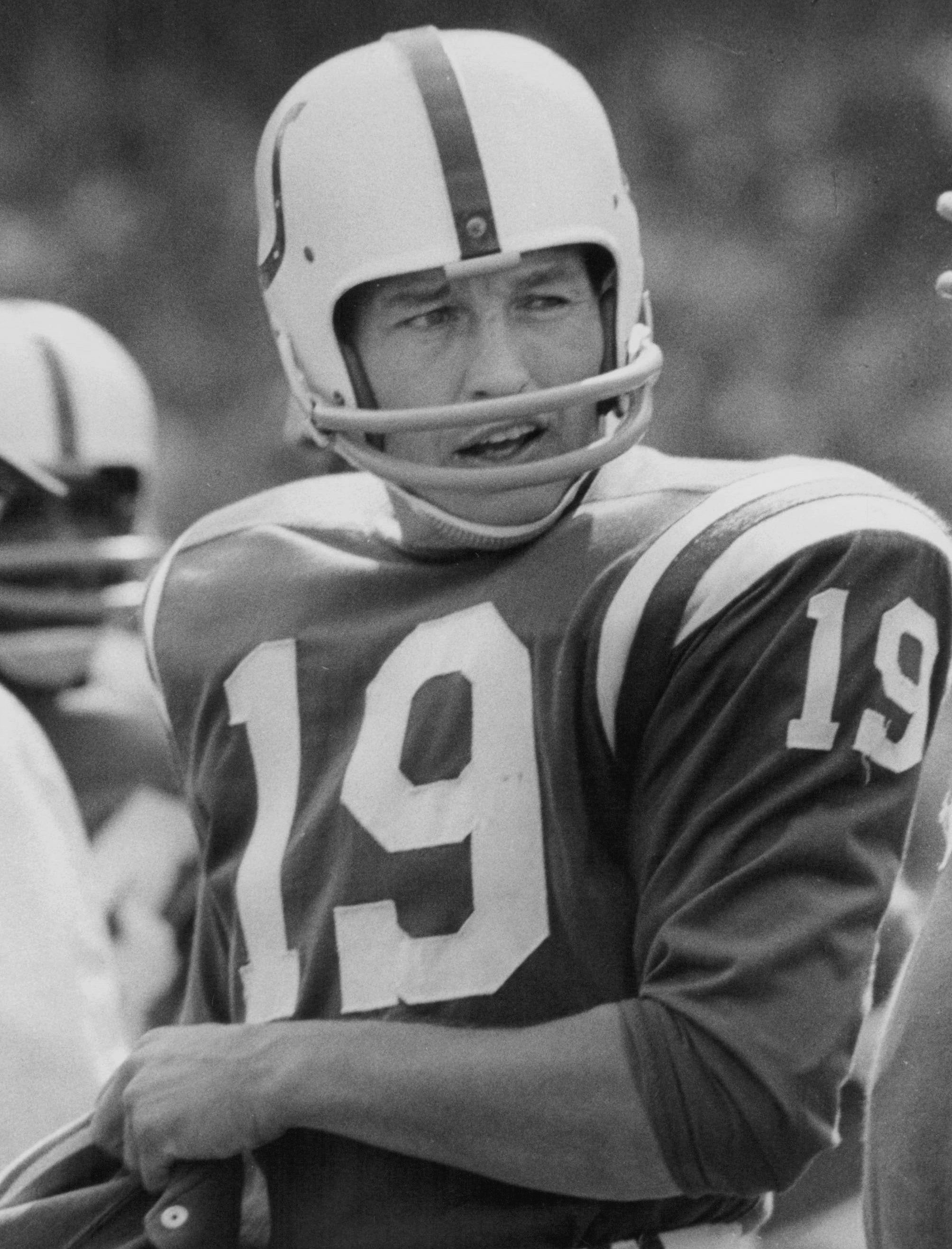 Professional football player Johnny Unitas as a member of the Baltimore Colts.